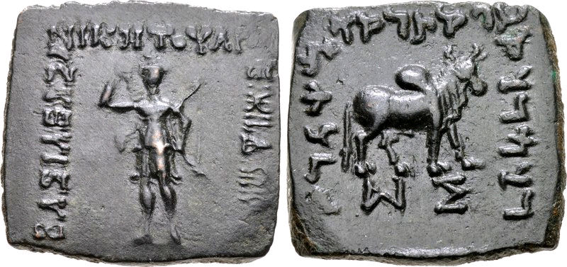 Artemidoros pedigree coin as son of MAUES: BAΣIΛEΩΣ ANIKHTOY APTEMIΔOPOY Rajadirajasa Maasaputasa cha Artemidorasa